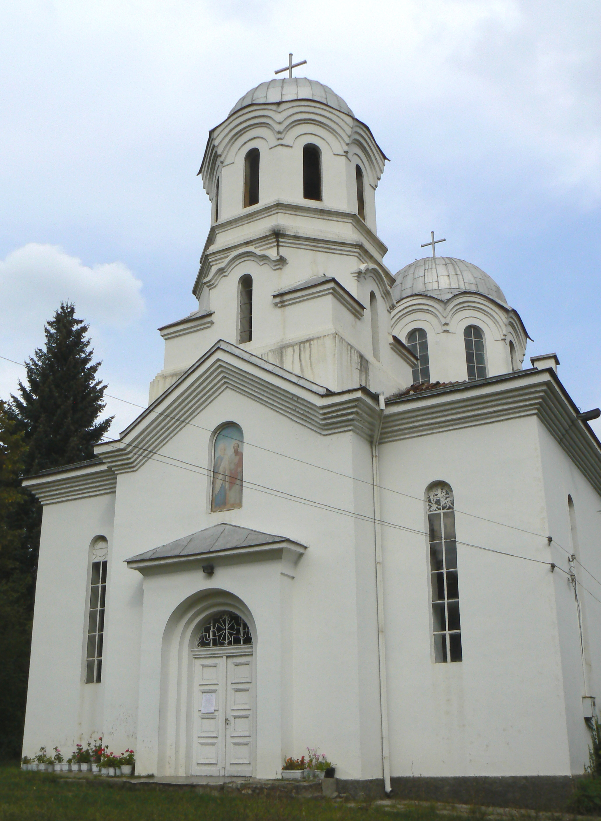 The church "St. Peter and Paul" in Svoge, Bulgaria